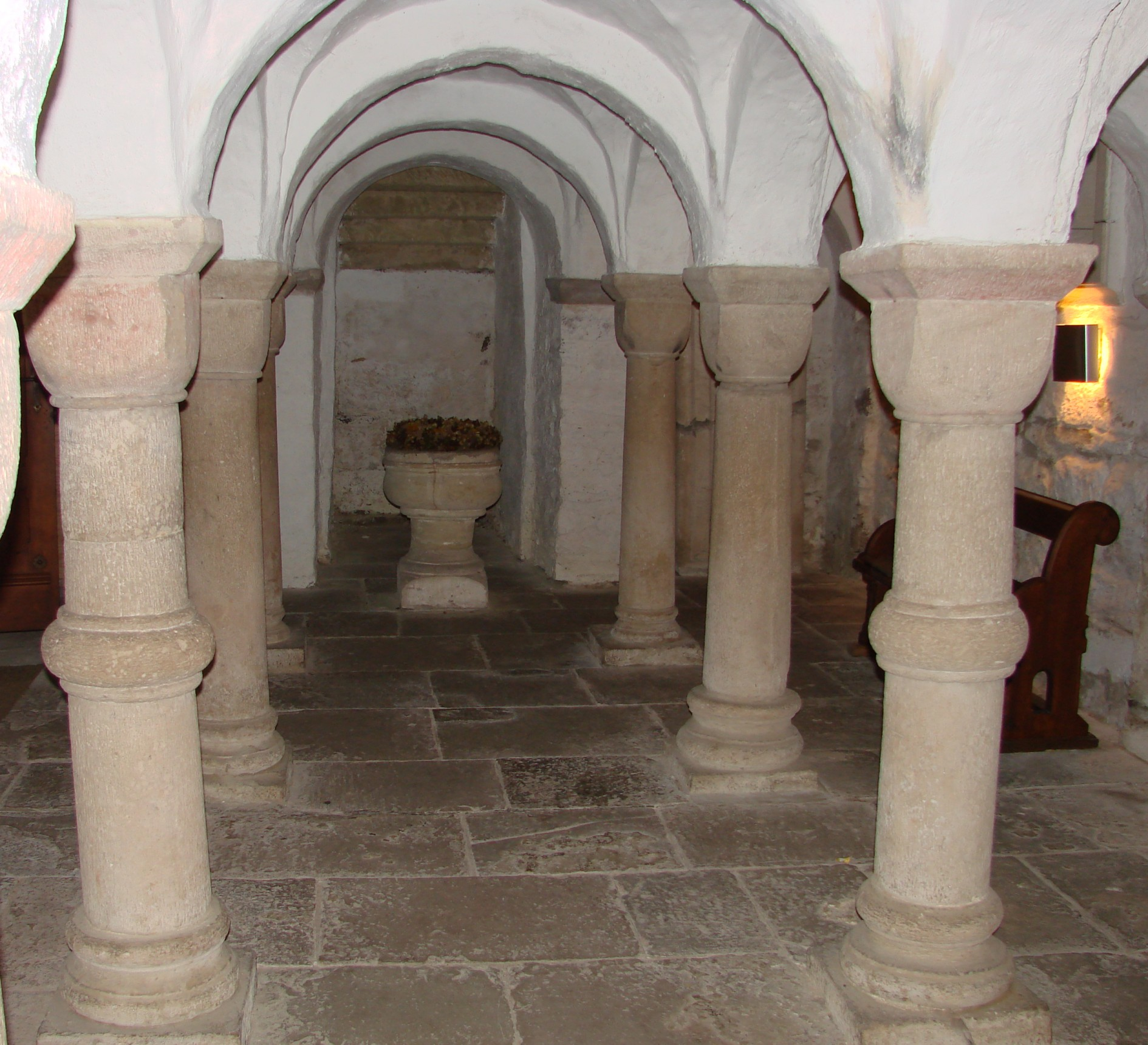 Stiftskirche Oberstenfeld, romanic crypt